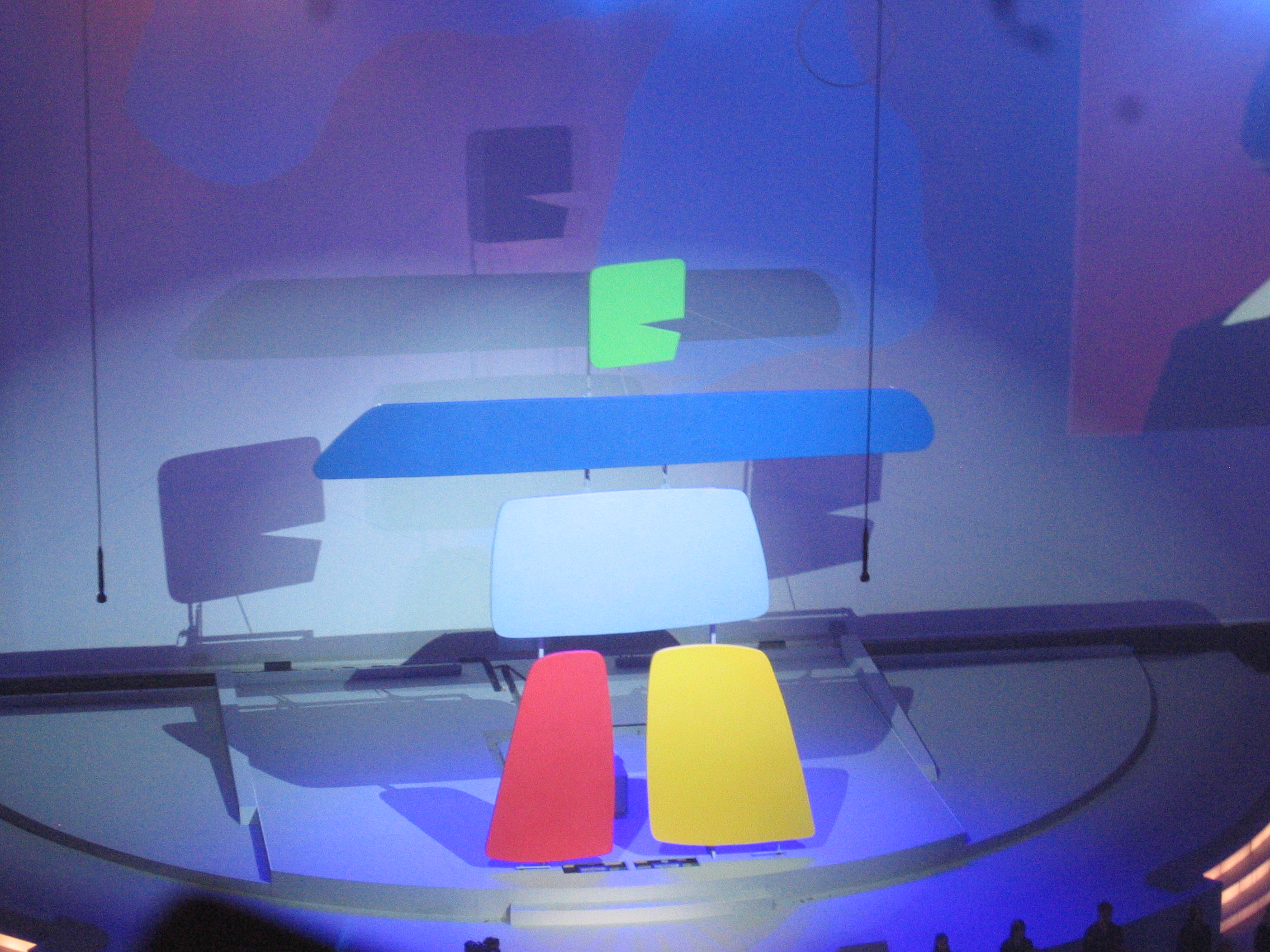 Ilanaaq - Vancouver 2010 Olympics Emblem - 3 Imagine 2010 - Canada's Olympic journey begins, unveiling ceremony of the Vancouver 2010 Olympic Winter Games emblem (Ilanaaq the Inukshuk), April 23, 2005